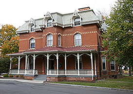 Historic Blackwell House